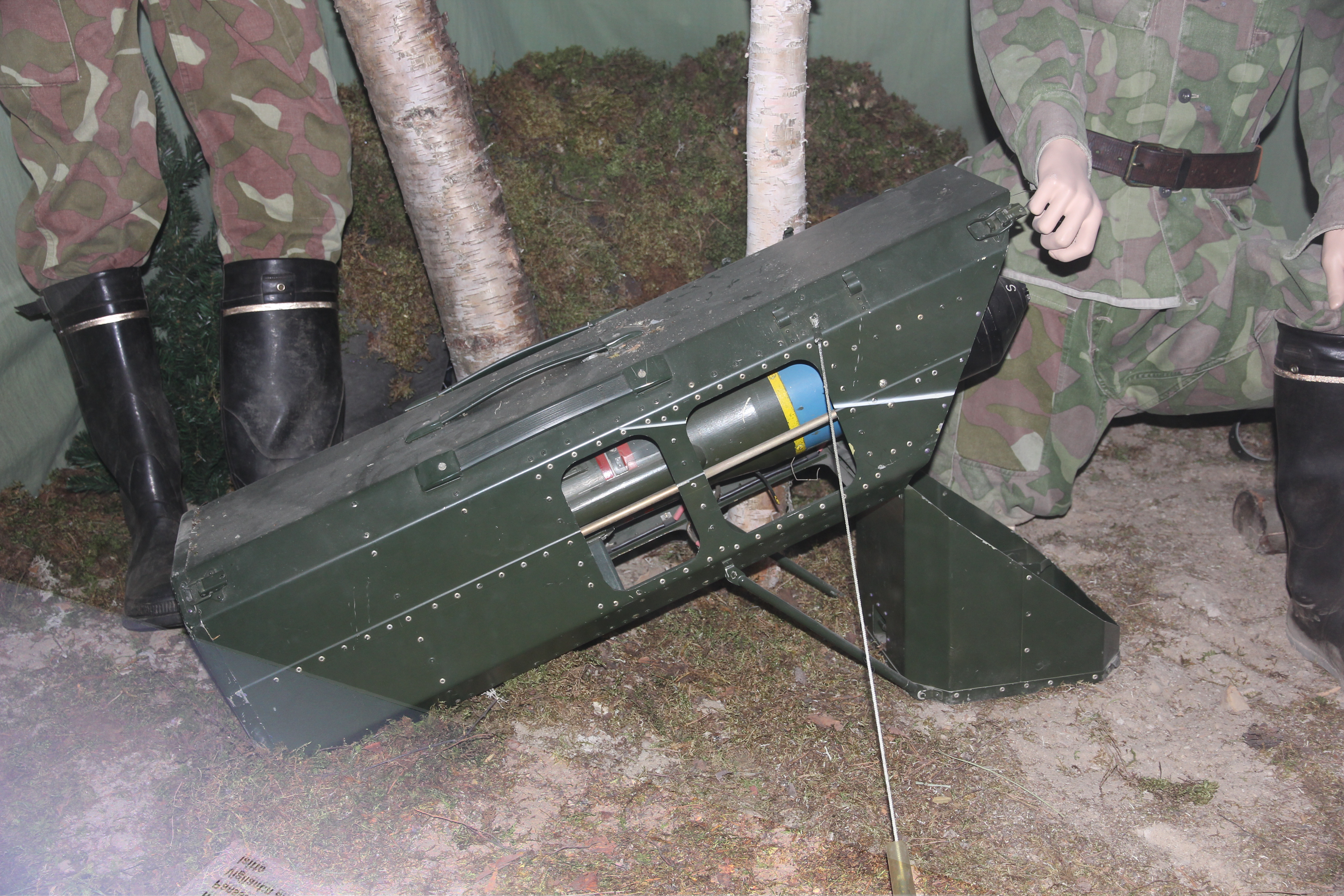 Vickers Vigilant anti-tank missile in the launcher/storage container. Photographed in Mikkeli infantry museum.